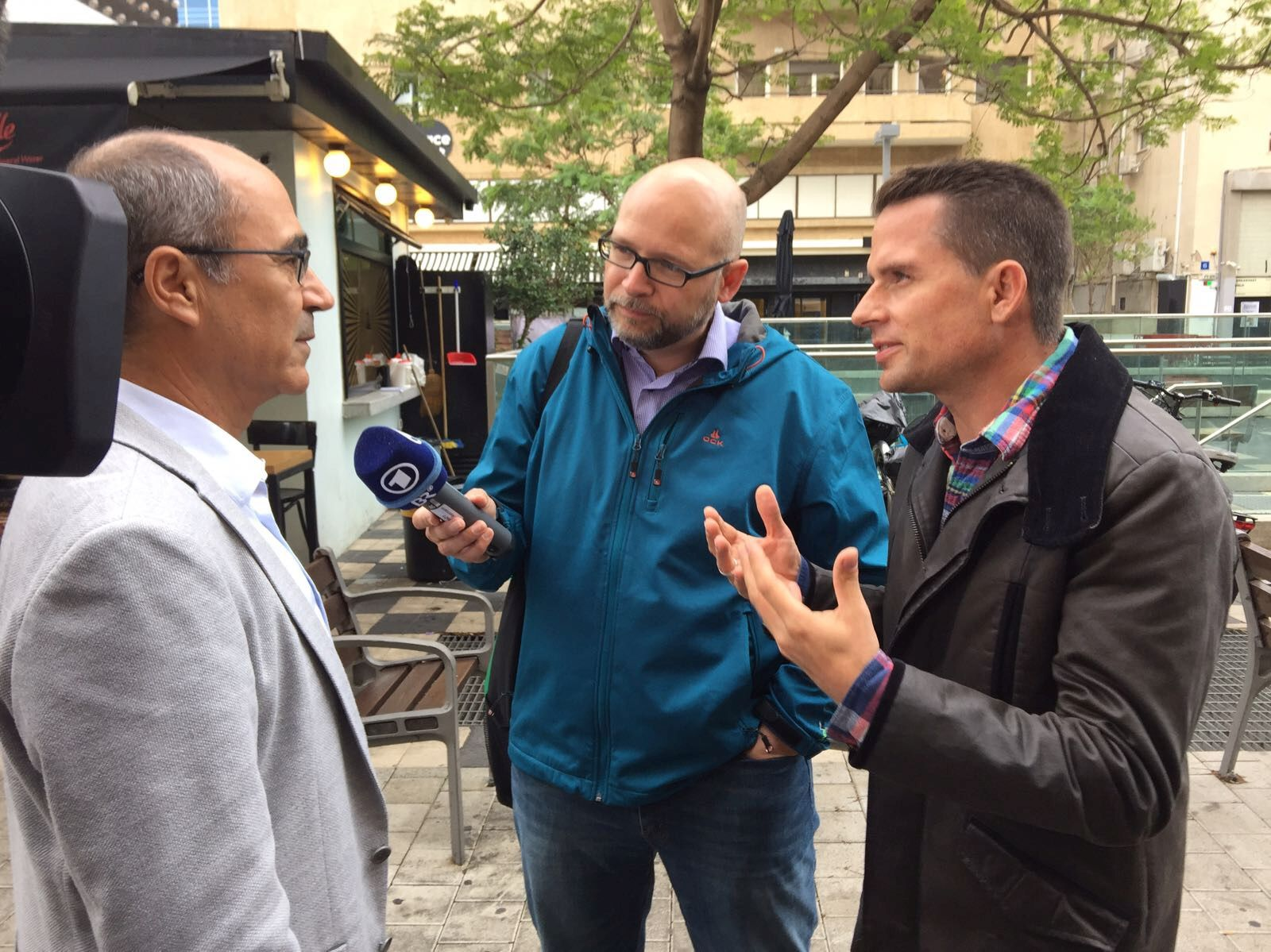 ARD-correspondents Tim Aßmann and Mike Lingenfelser interviewing Tel Aviv city developer Yoav David